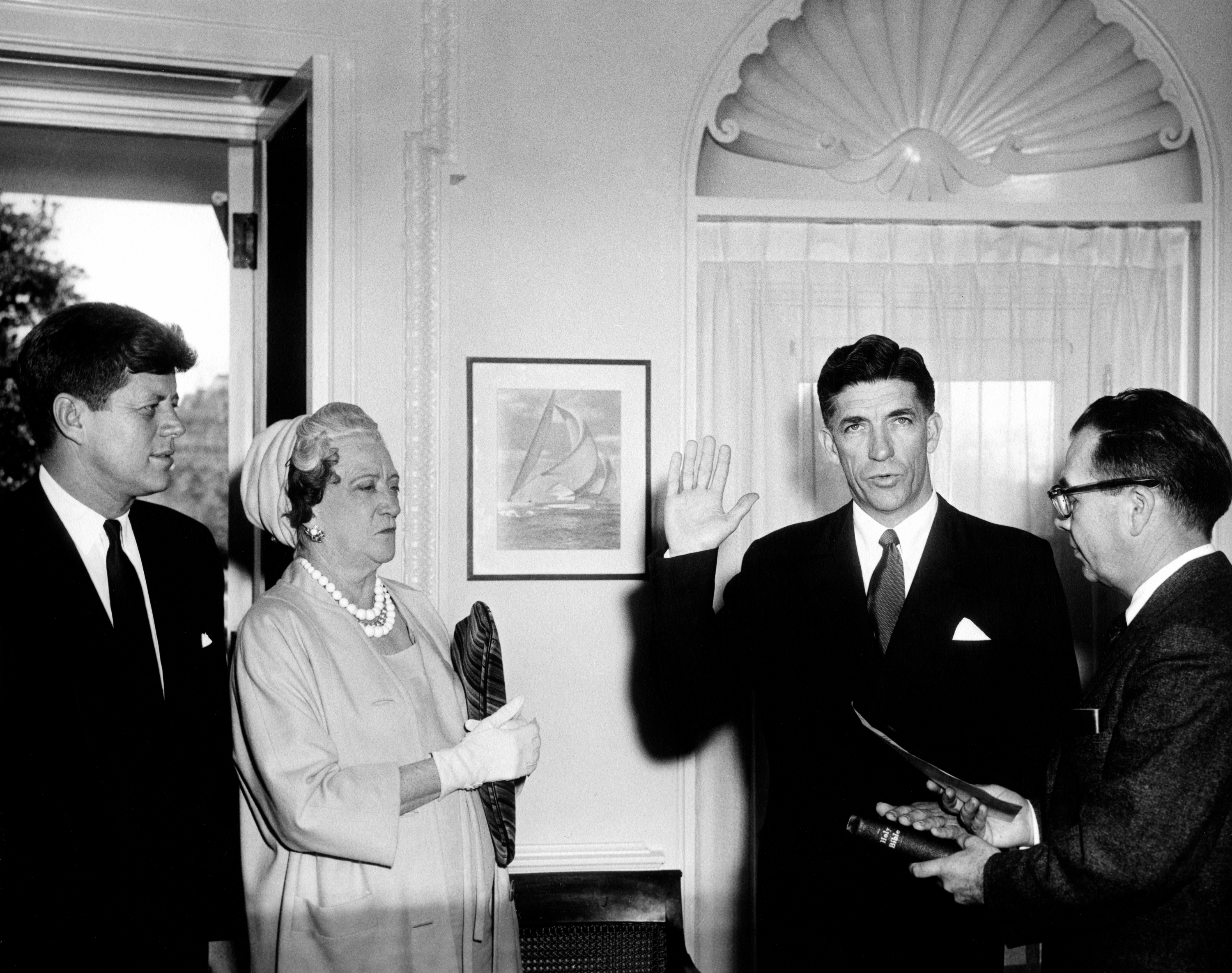 President John F. Kennedy (left) watches as an unidentified man (far right) swears in Najeeb Halaby as Administrator of the Federal Aviation Agency. Laura Wilkins Halaby, mother of Mr. Halaby, stands next to President Kennedy. Oval Office, White House, Washington, D.C.